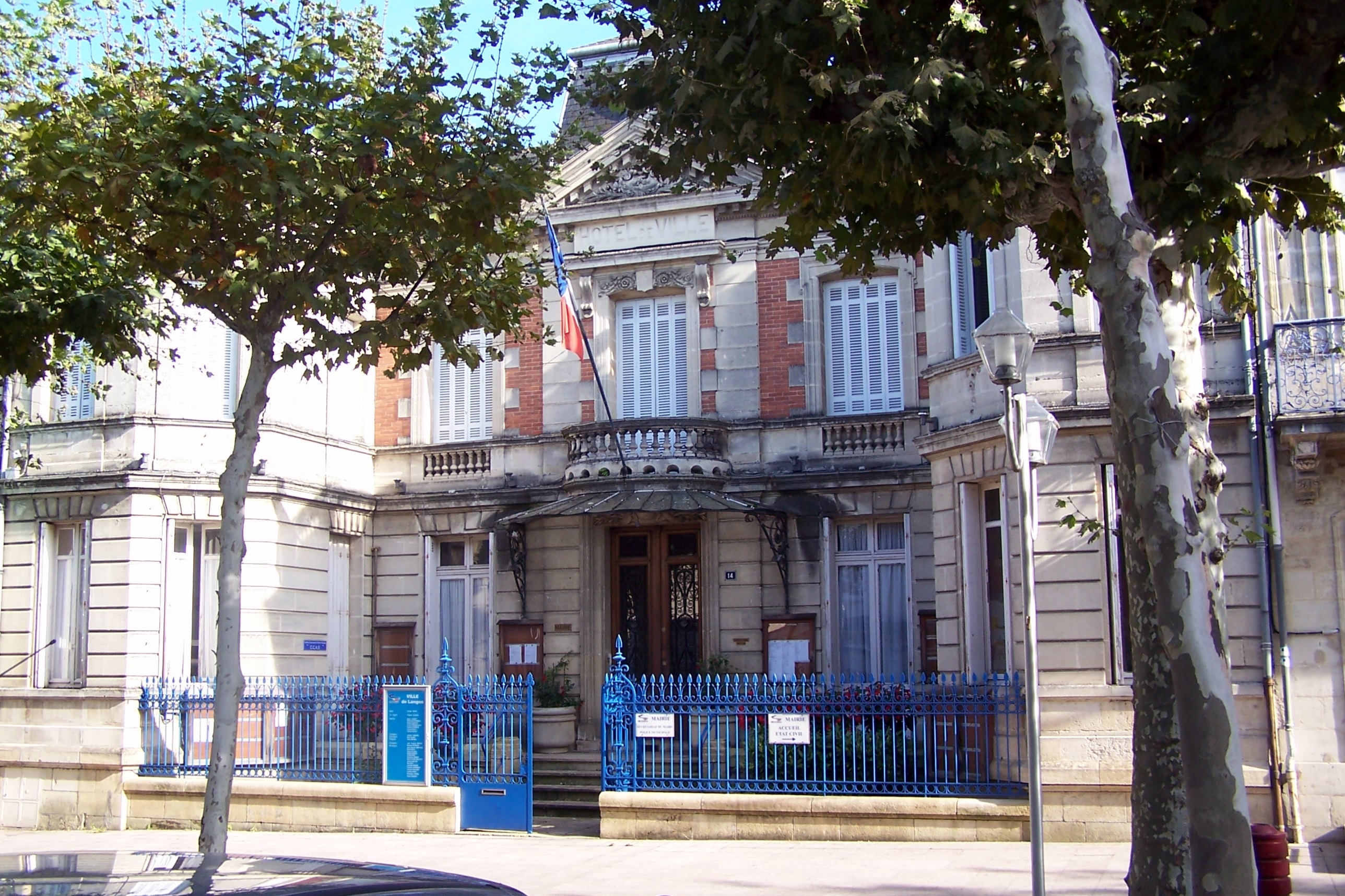 Town hall of Langon (Gironde, France)